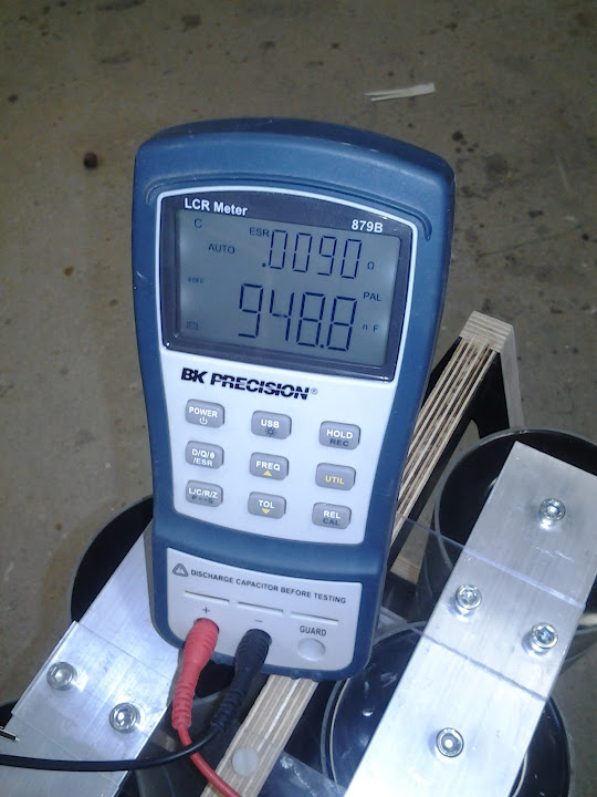 LCR meter